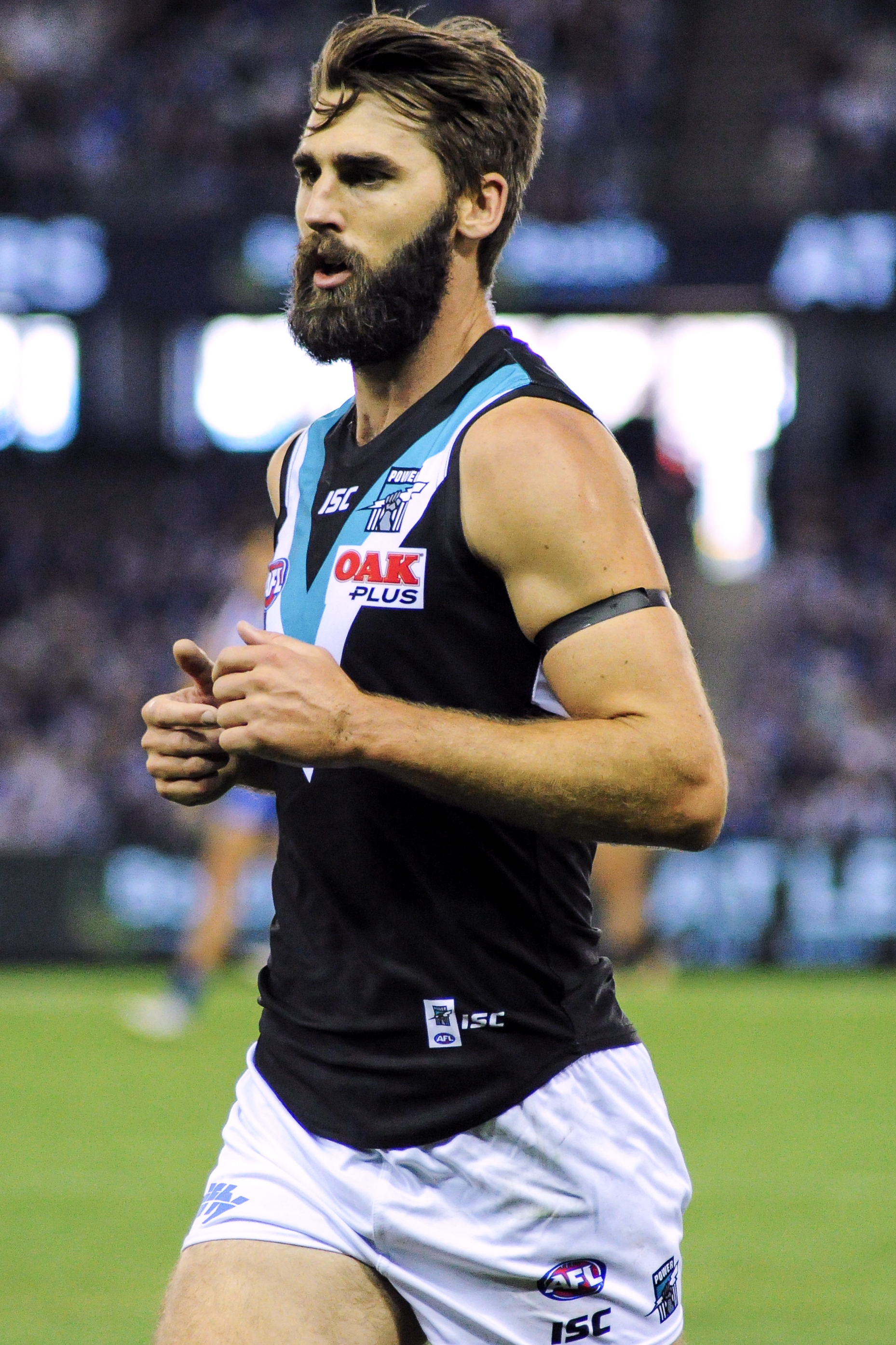 Justin Westhoff during the AFL round six match between North Melbourne and Port Adelaide on Saturday, 28 April 2018 at Etihad Stadium in Melbourne, Victoria.